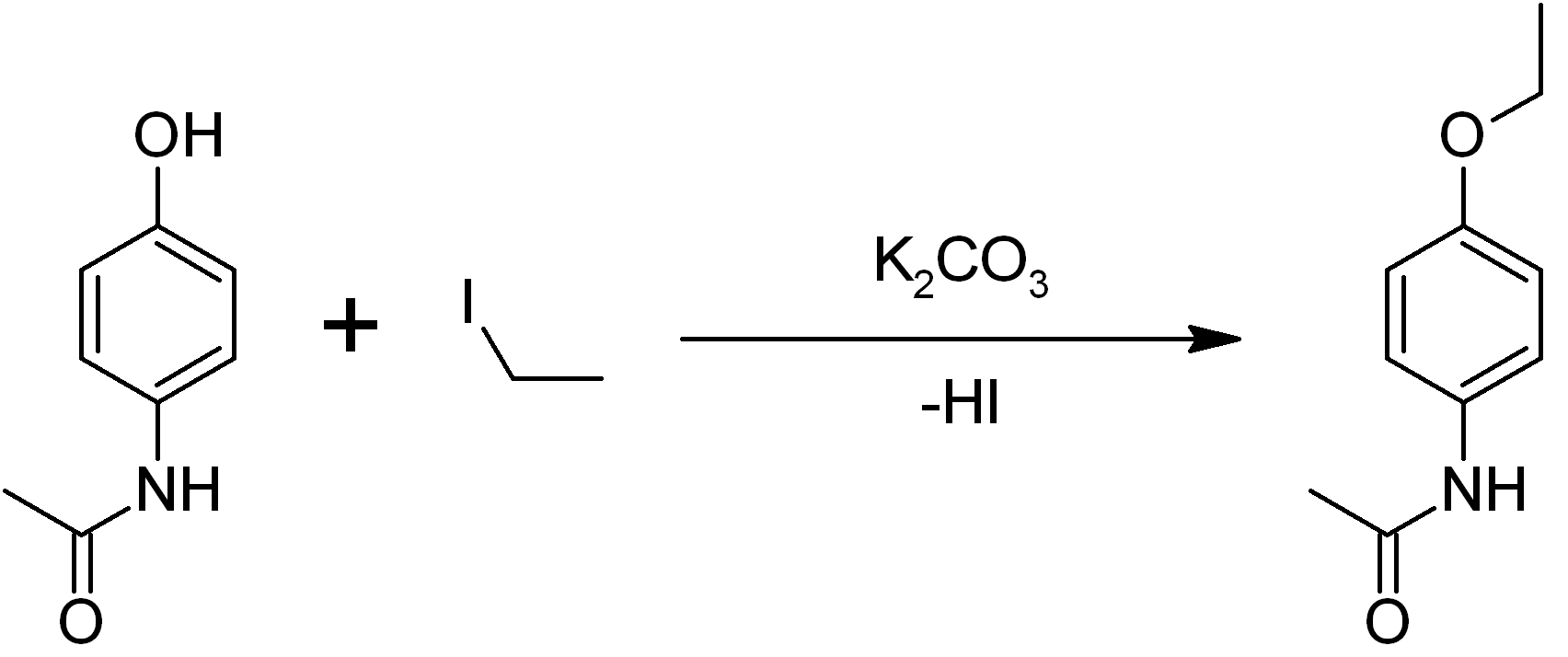 Williamson ether synthesis of phenacetin from paracetamol